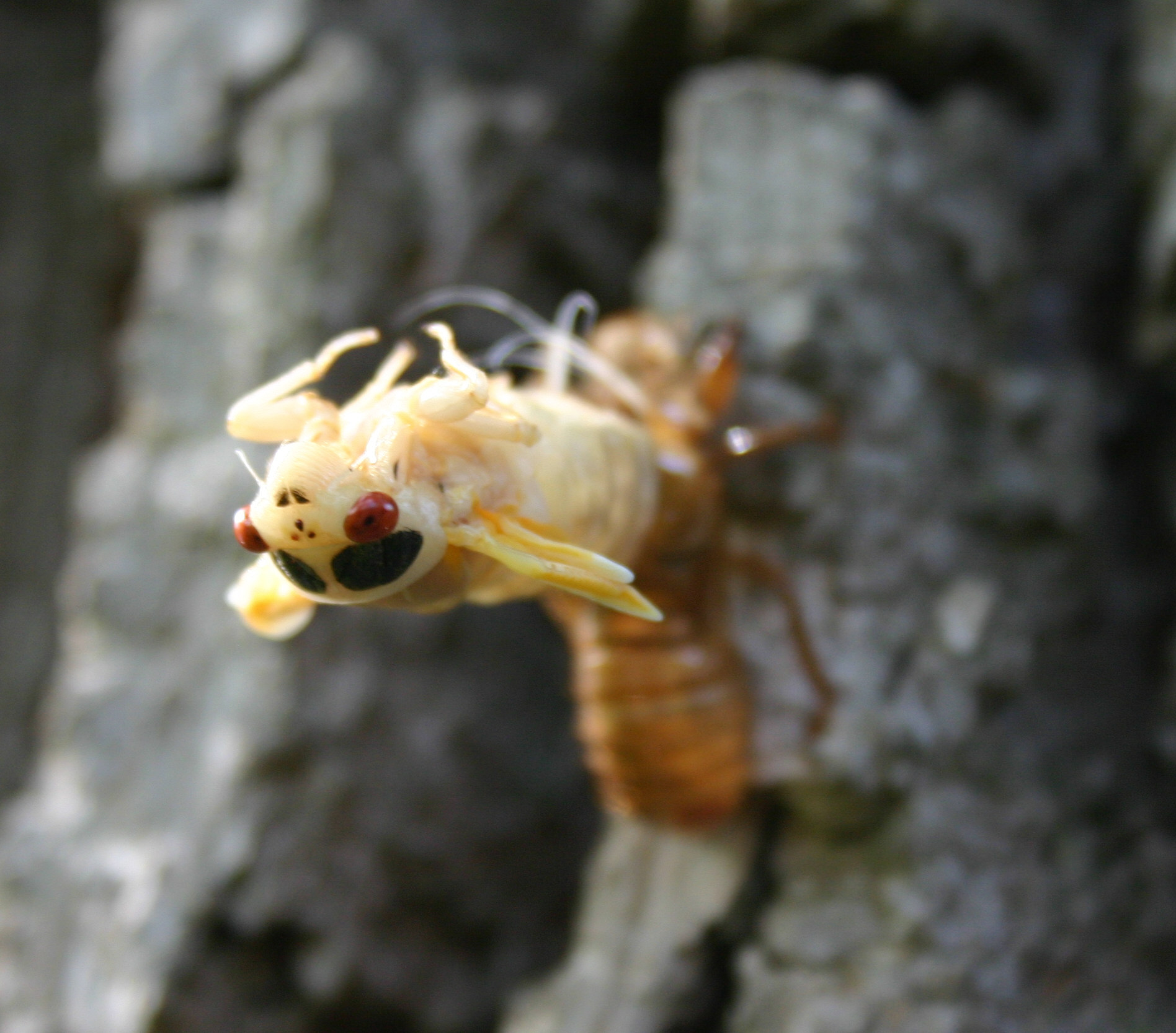 I took this picture with my Canon Rebel 6.5M on 05/28/2007 in Wilmette, IL.